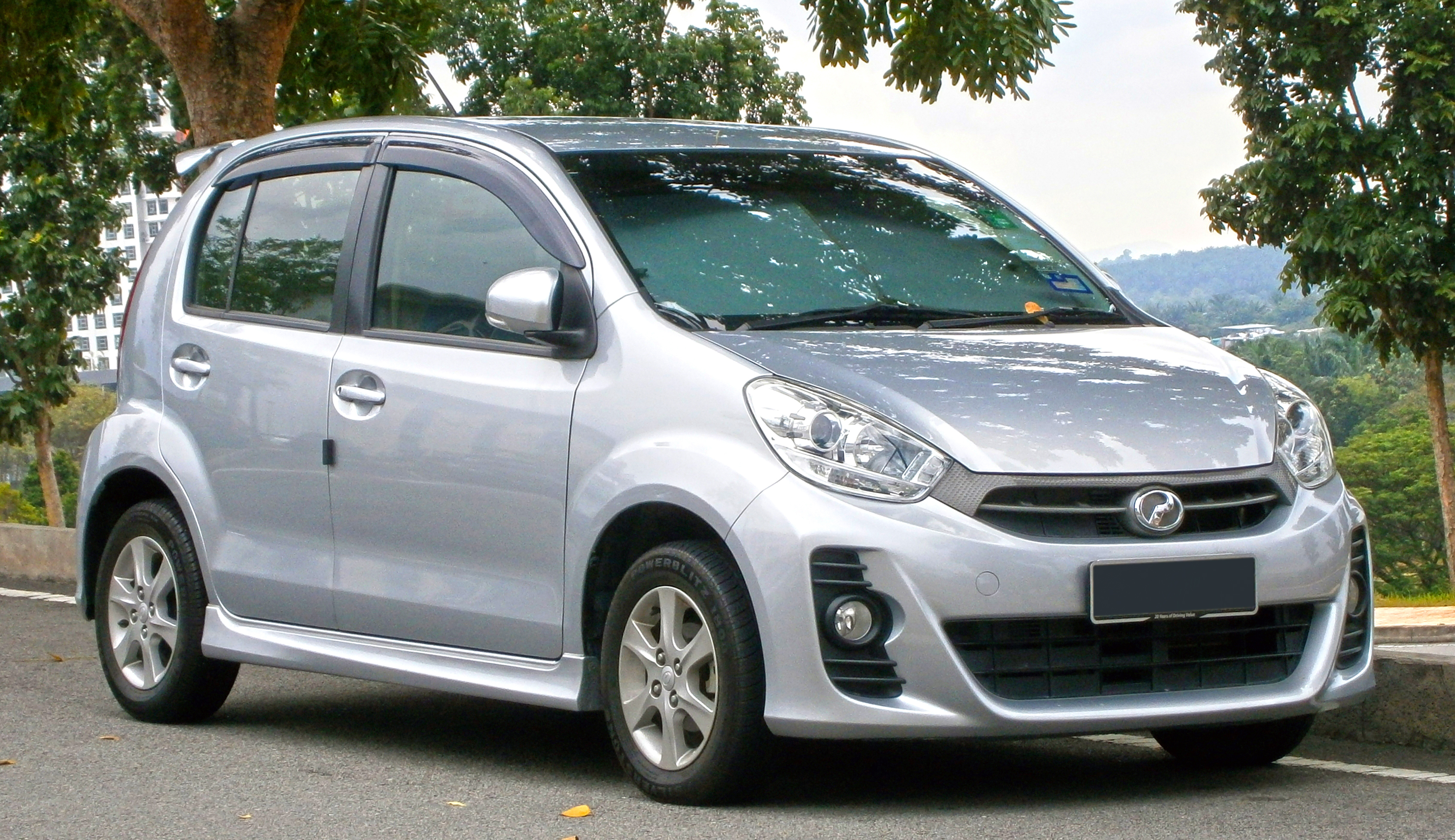 2013 Perodua Myvi 1.3 SE (S-Series) in Cyberjaya, Malaysia. Colour : Glittering Silver